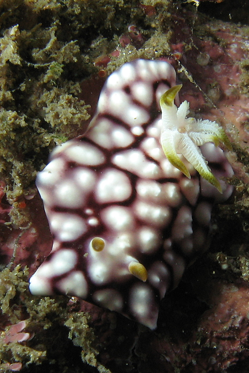 The nudibranch Goniobranchus geometricus (Risbec, 1928) (synonym: Chromodoris geometrica)